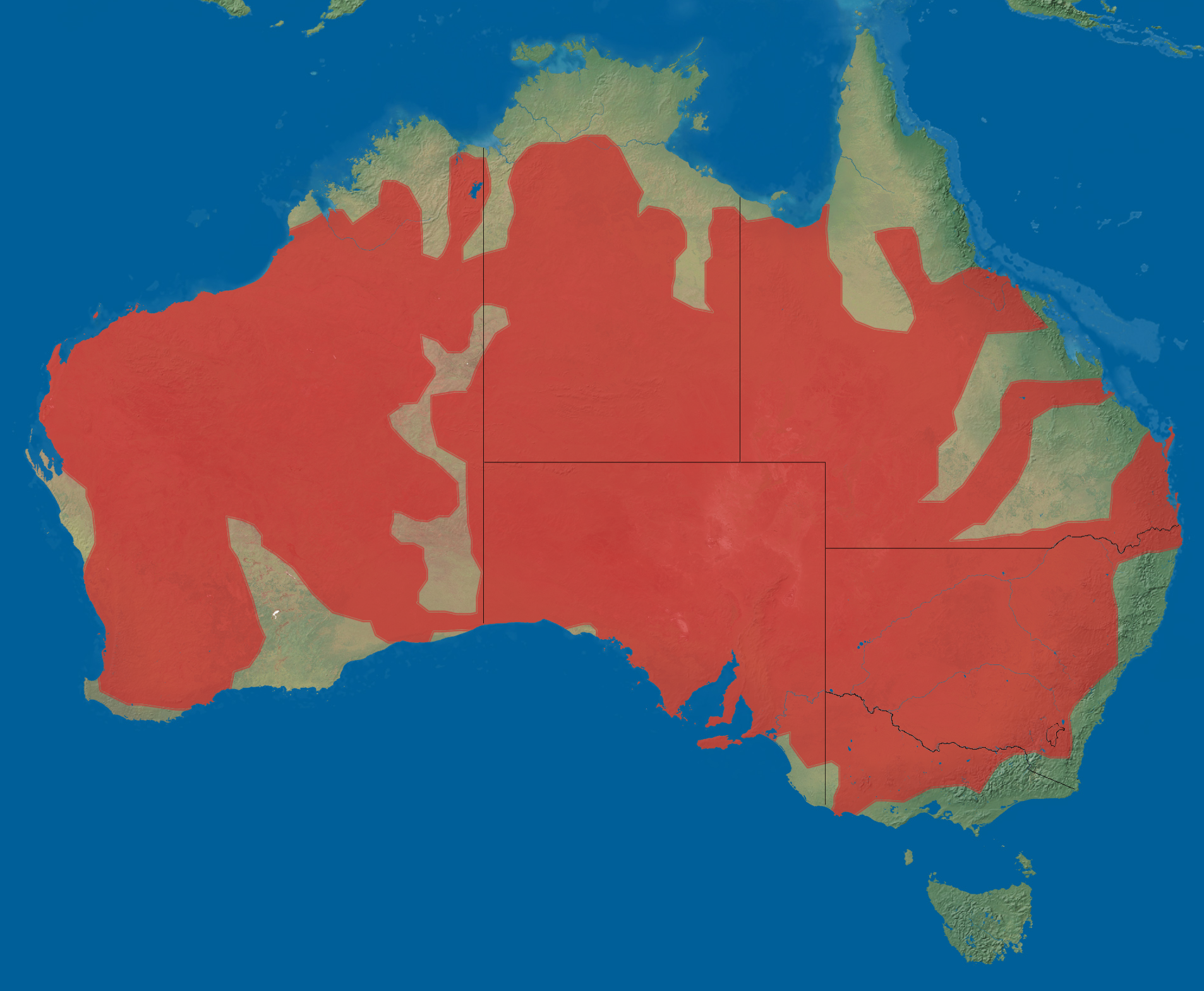 The Distribution of the Little Button-Quail